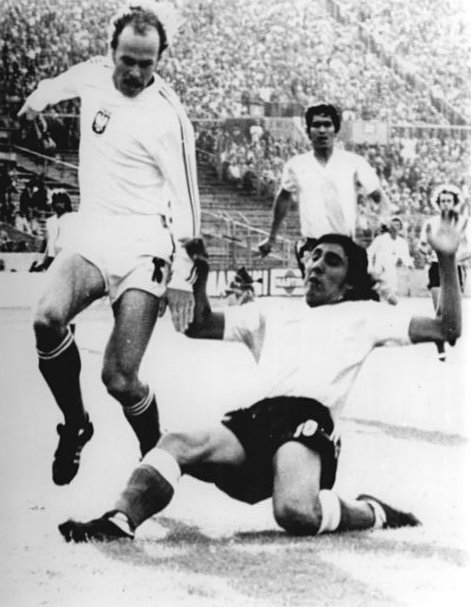 Grzegorz Lato shot 1:0 goal despite of sliding tackle of Ramón Heredia during 3:2 match Poland-Argentina, 1974 FIFA World Cup, 15.06.1974